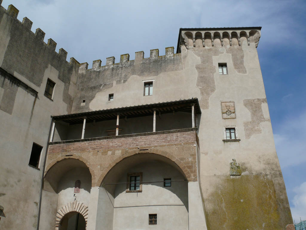 Orsini Fortress